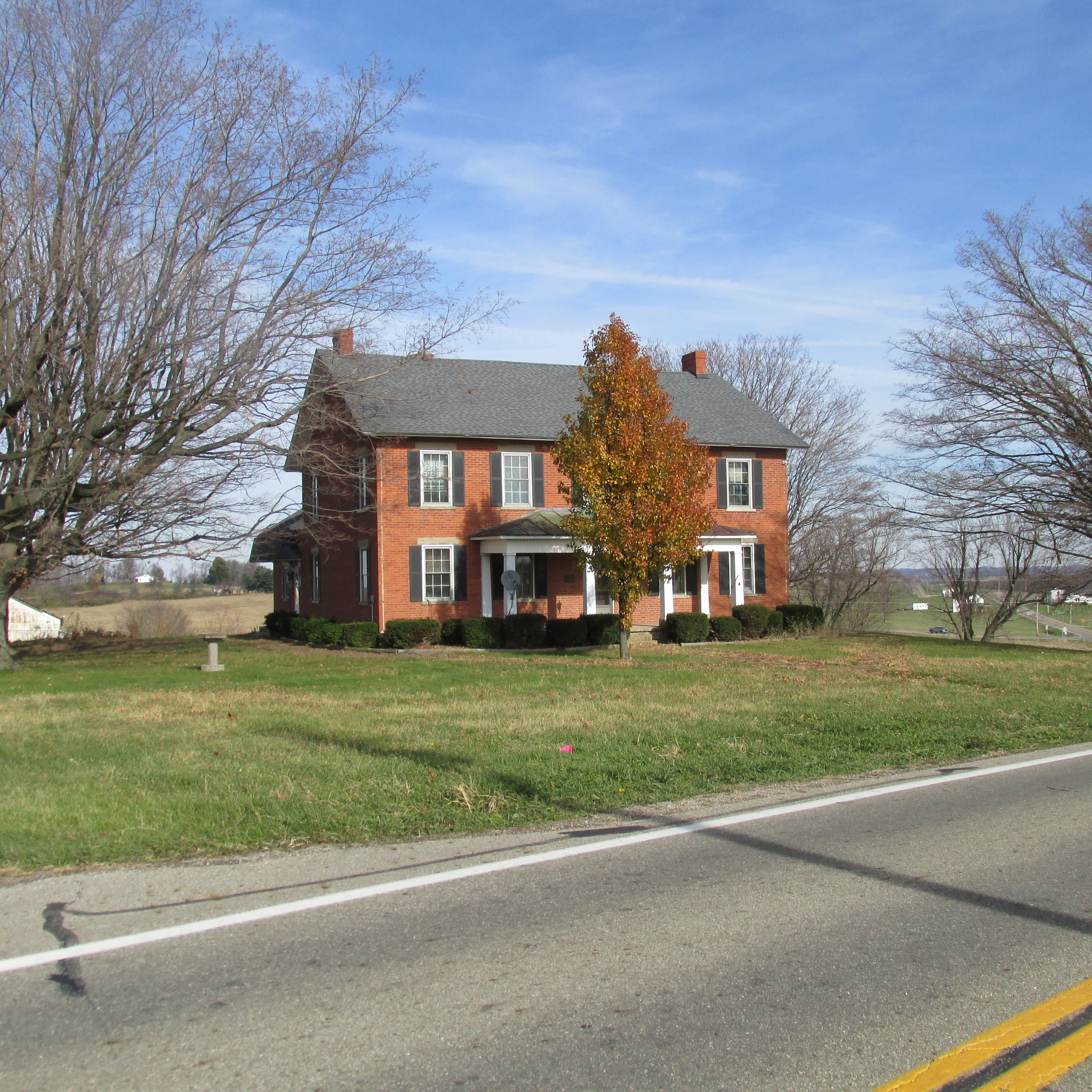 The Stevenson-Peters House located in Pickaway County, Ohio.